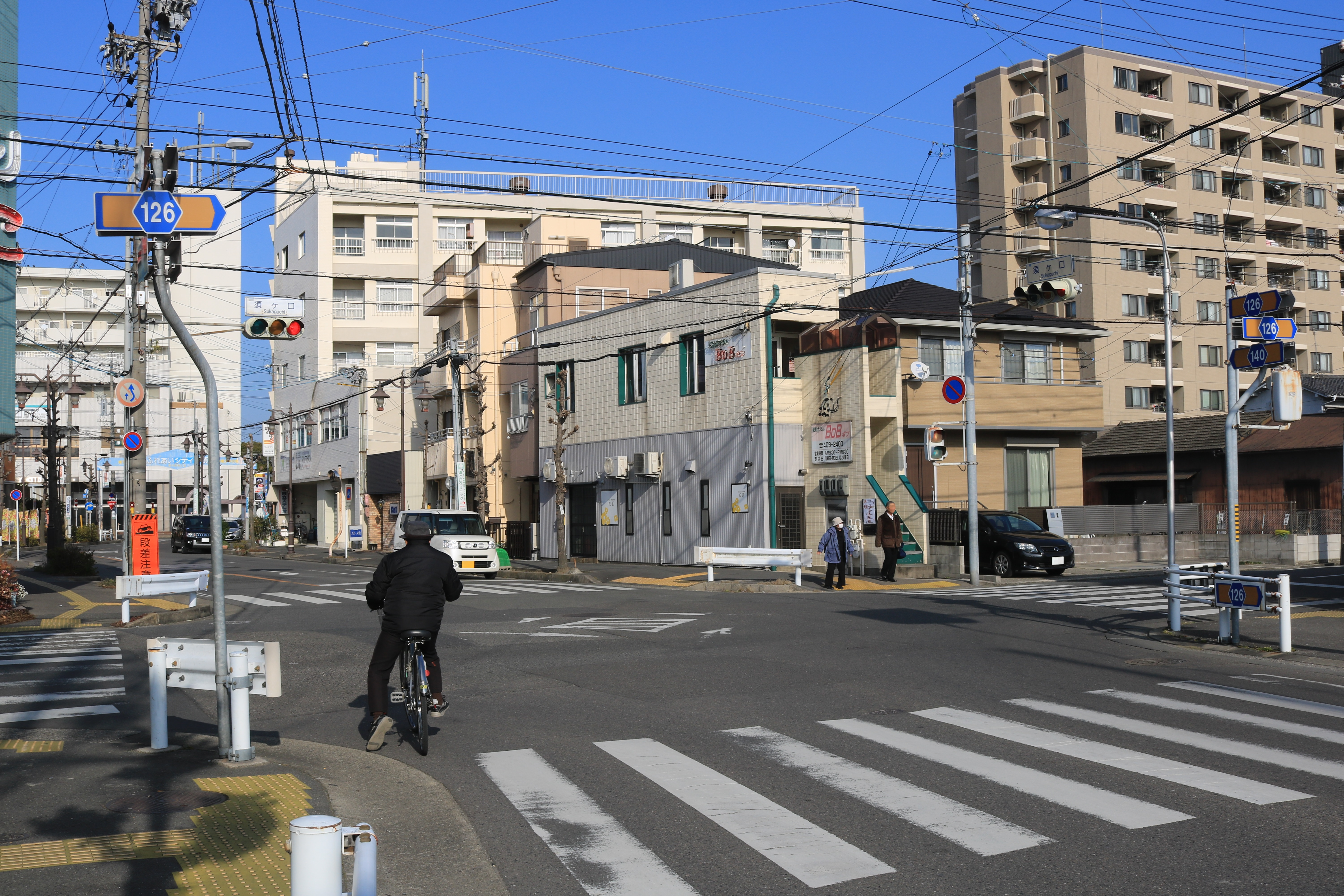 Aichi Prefectural Road Route 126 in Sukaguchi, Kiyosu, Aichi Prefecture, Japan.